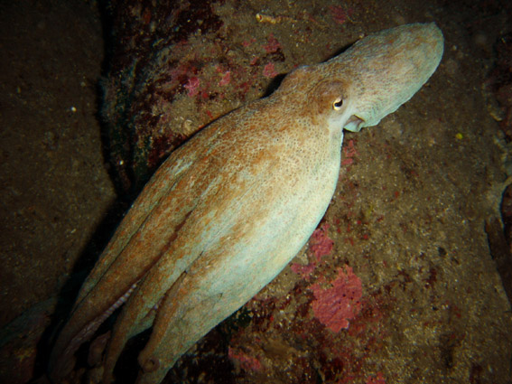 Octopus vulgaris from Croatia. 2005.